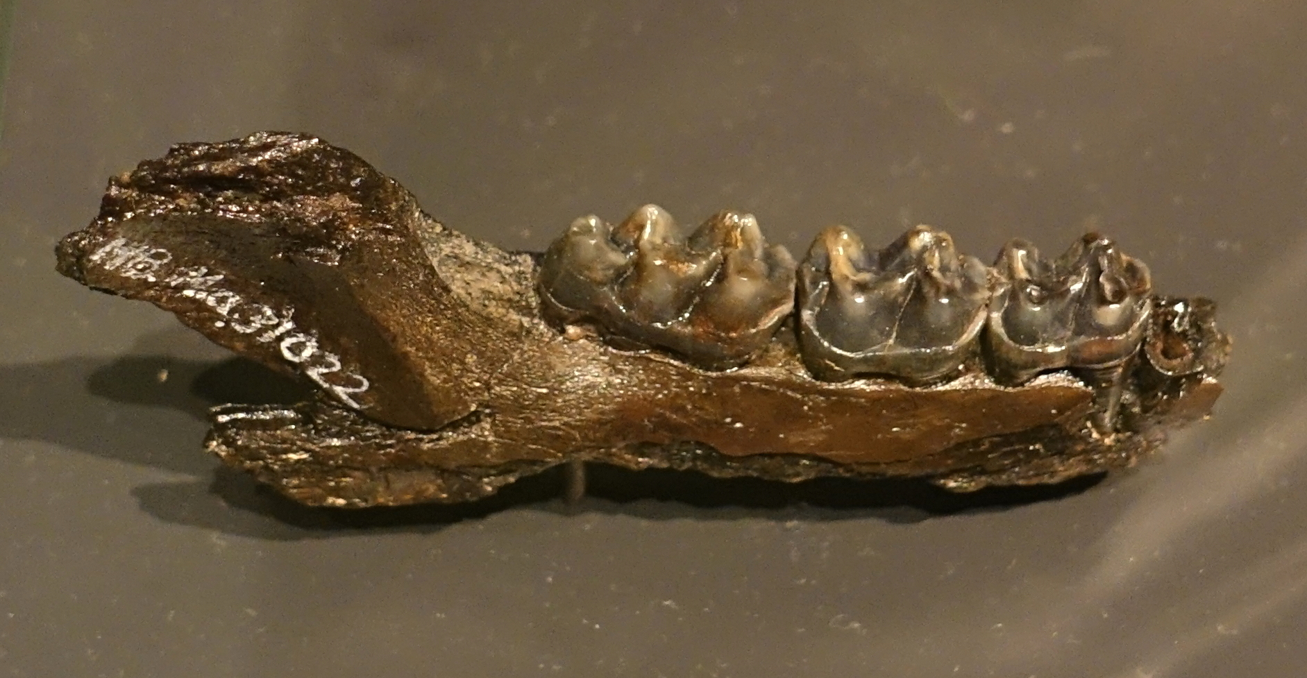 Exhibit in Museum für Naturkunde, Berlin, Germany.